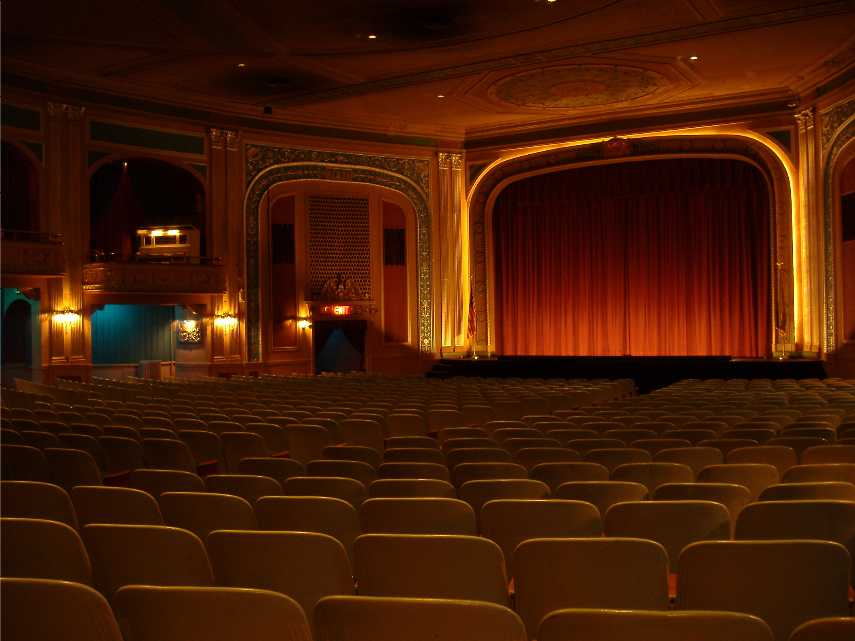 Interior of the Lafayette Theatre, Suffern, Rockland County, New York.